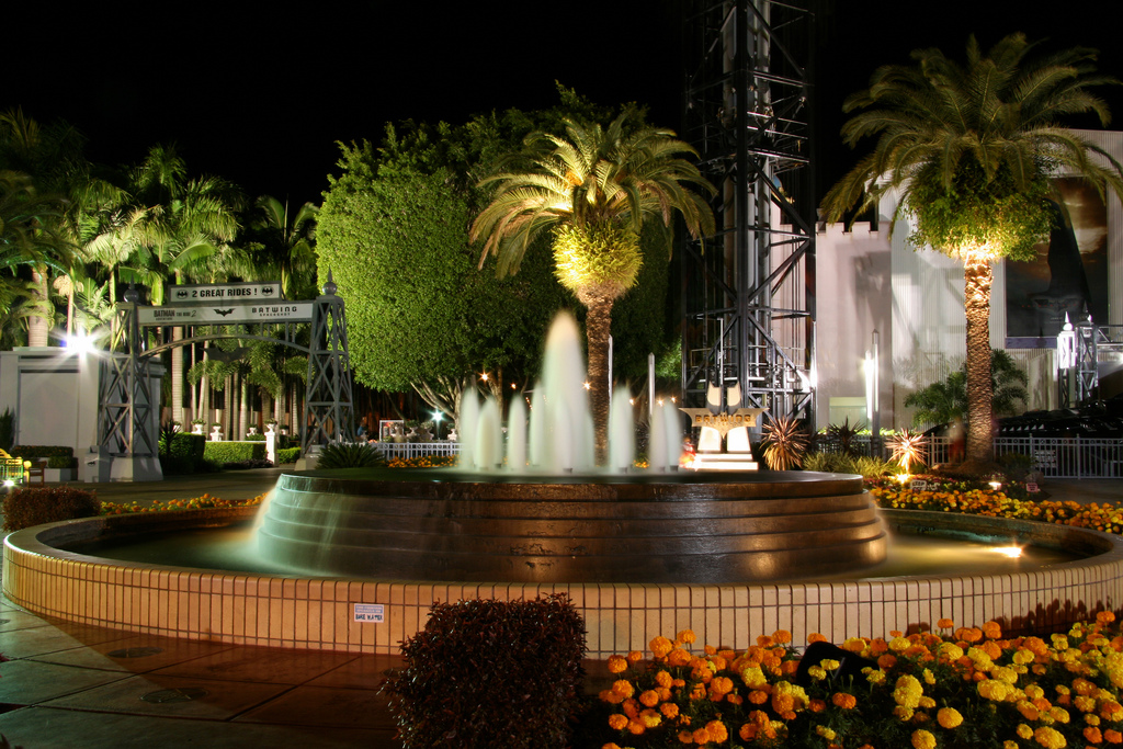 The Fountain of Fame on Anzac Day Night 2008 at Warner Bros. Movie World